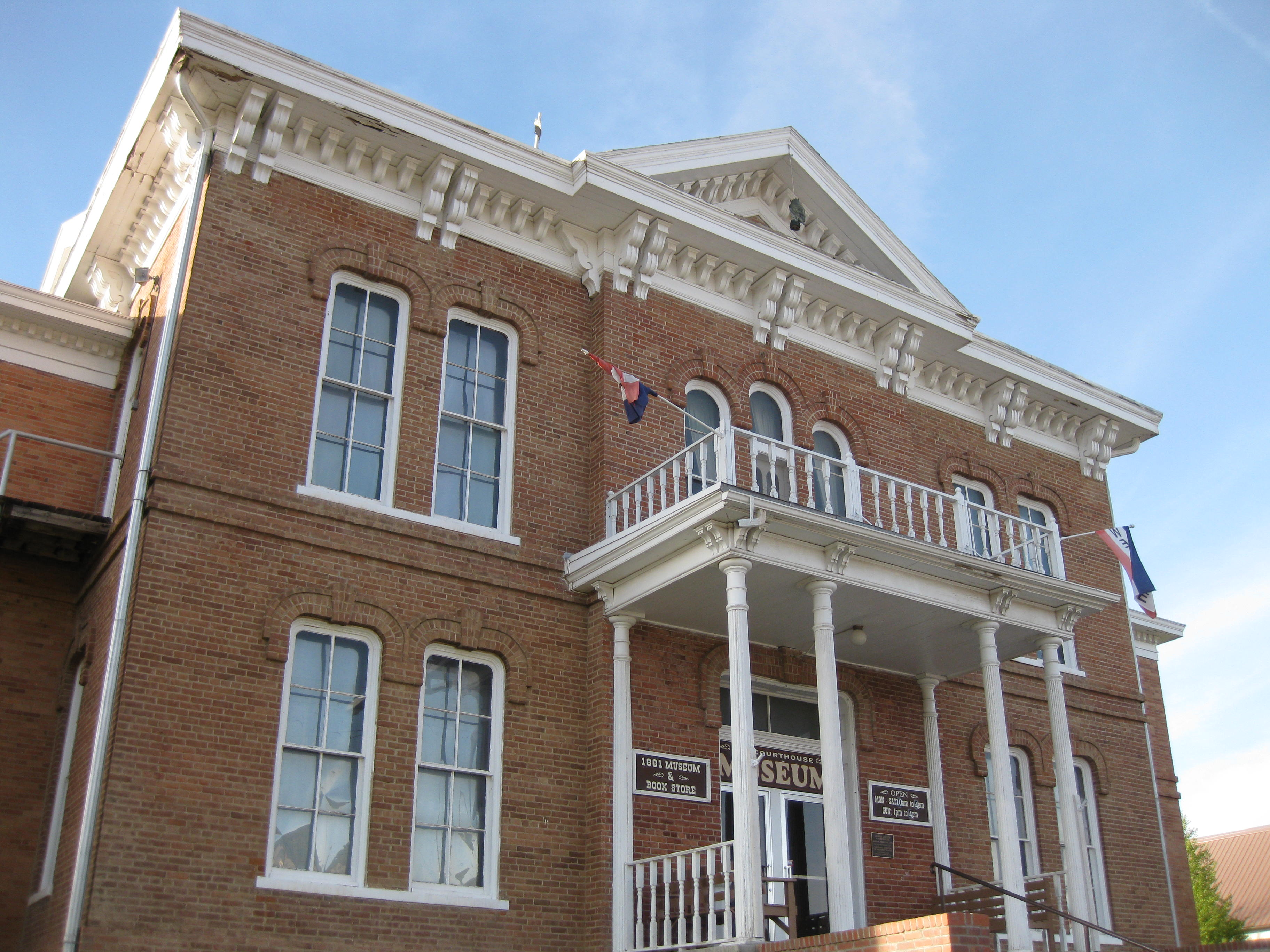 Exterior of the former Custer County Courthouse, located at 411 Mount Rushmore Road in downtown Custer, South Dakota, United States. Built in 1881, the courthouse (now a museum) is listed on the National Register of Historic Places.